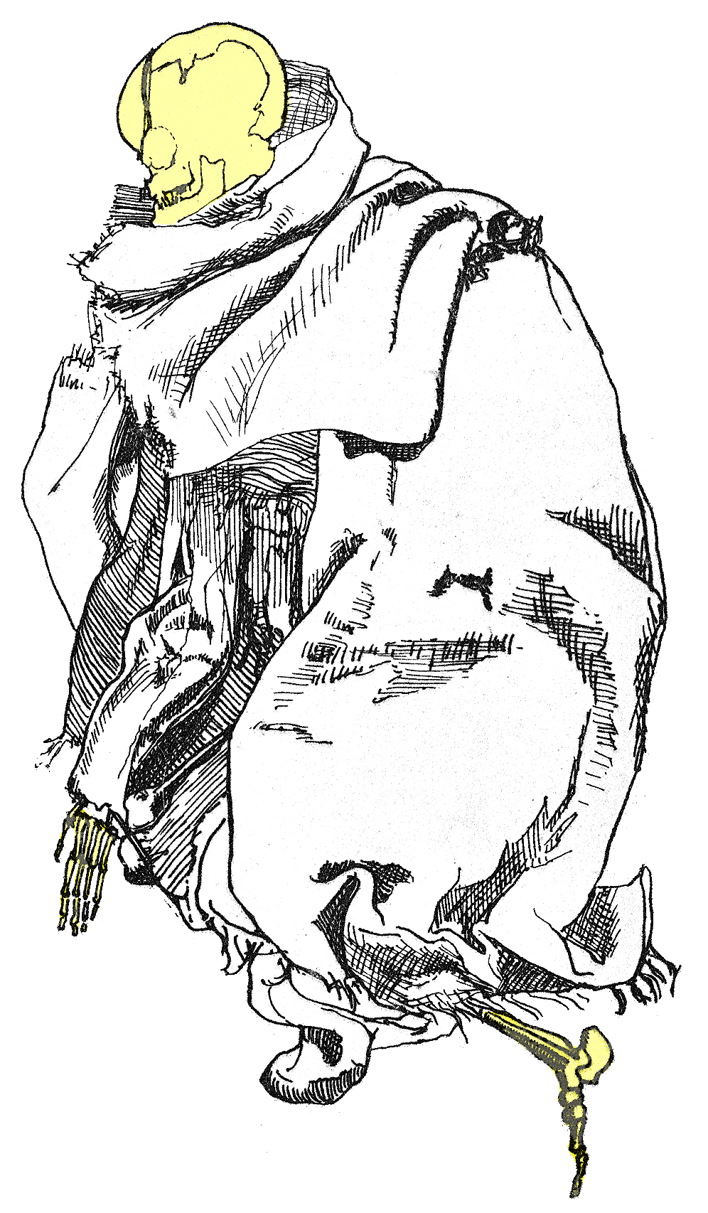 Bog Body Bernuthsfeld Man dating to 680 and 775 AD. Drawing showing the position of the body and its clothing by Hans Hahne 1925. Found in 1907 in Hogehahn Bog near Tannenhausen (Landkreis Aurich), Lower Saxony, Germany.